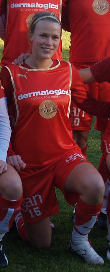 Røa wearing shirts with the gold medal on them, as they were not awarded their gold by the NFF.